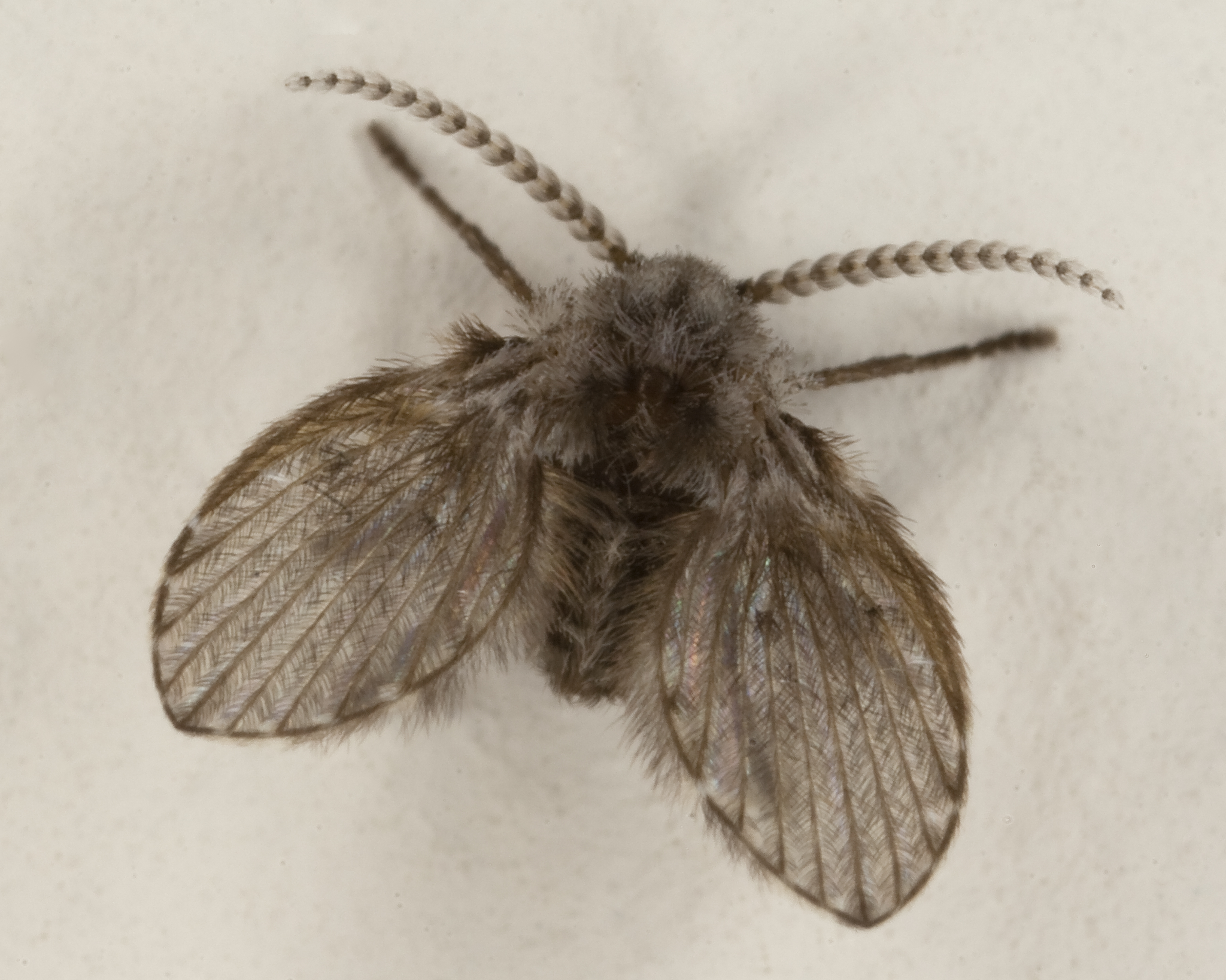 Picture of a moth fly (Clogmia Albipunctata). Length of this insect is around 2 mm.